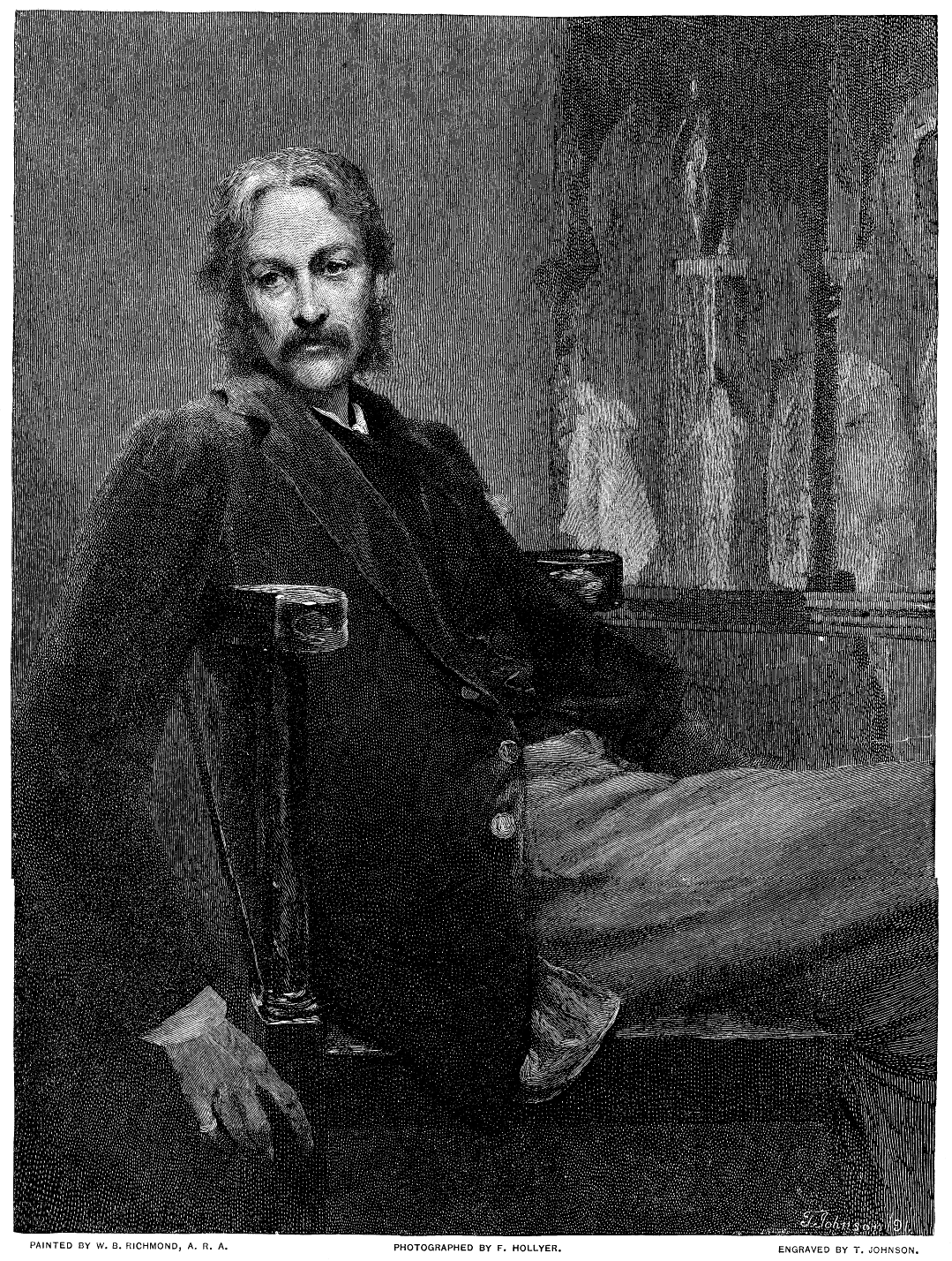 An engraving of Andrew Lang